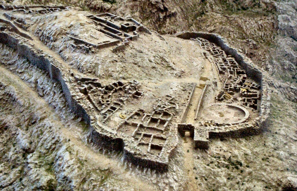 model of the palace of Mycenes.